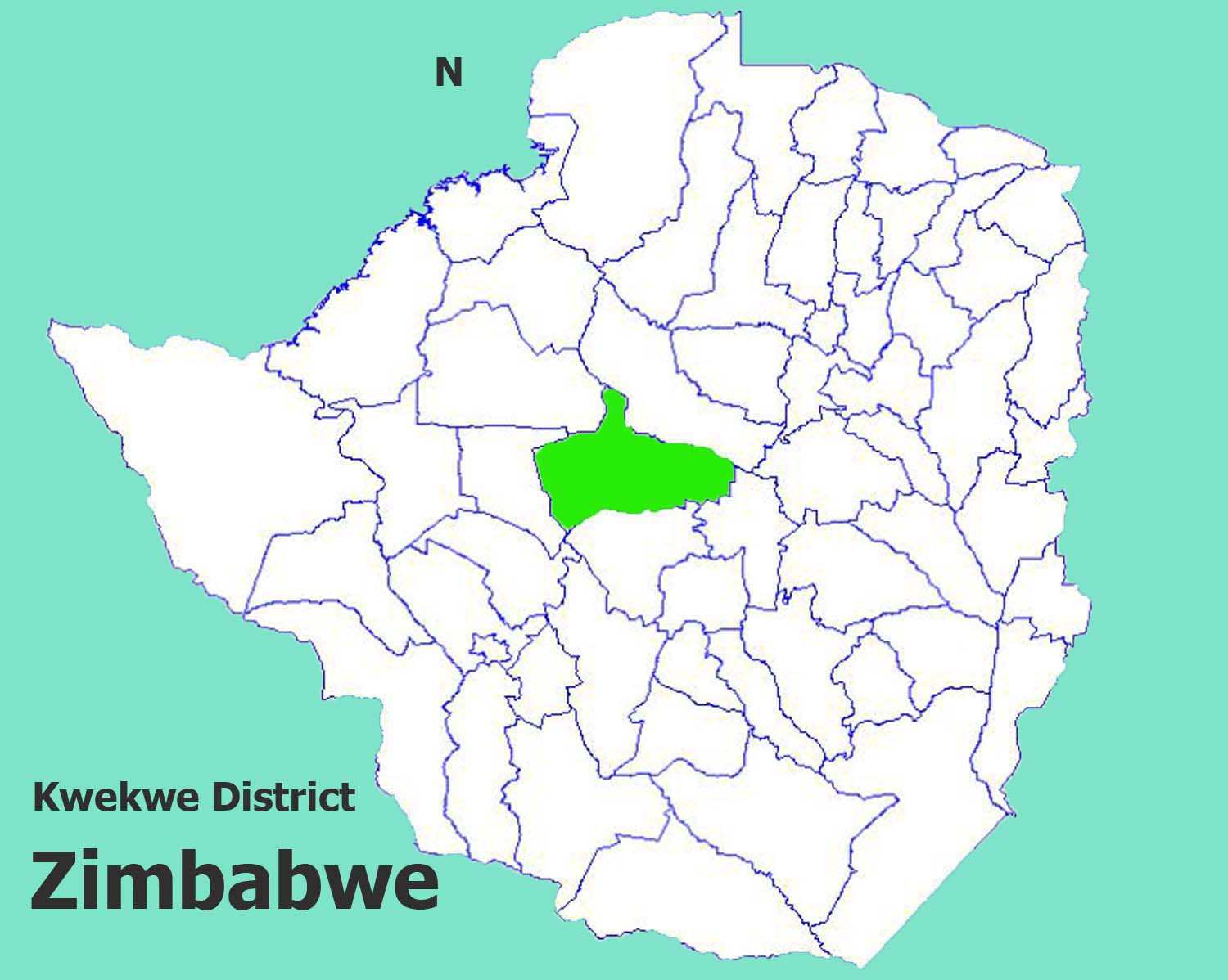 Kwekwe District